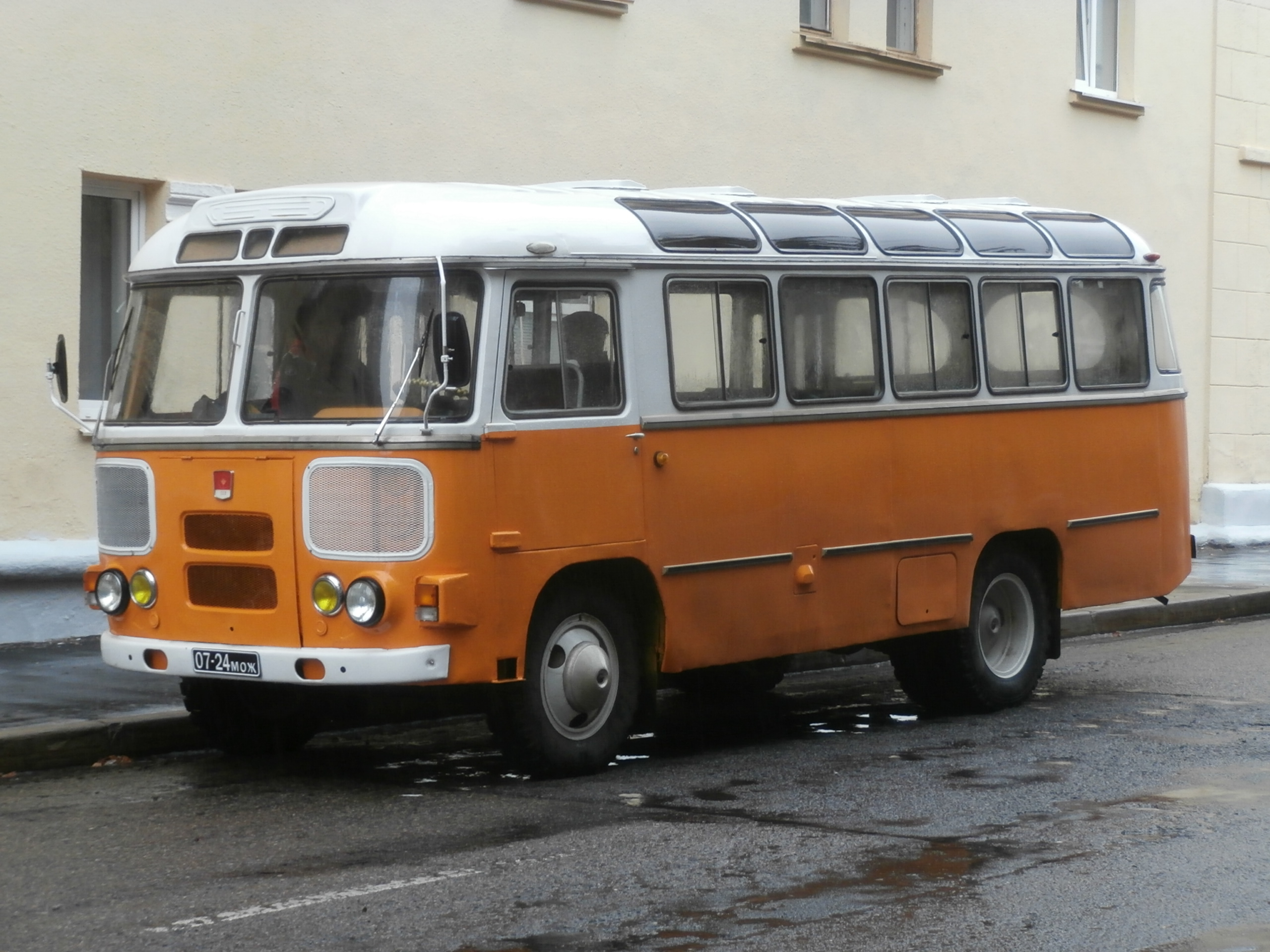 PAZ-672 07-24 мож at Bronevoy Pereulok 12 in Minsk 24 August 2014